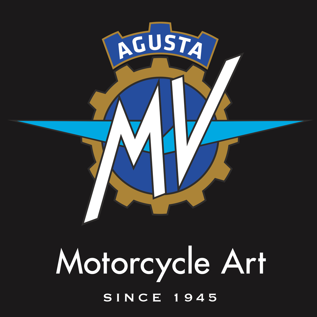 MV logo 1945